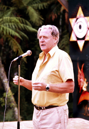 Image (photograph) taken by Official Nambassa Photographer and uploaded by User:Mombas, Nambassa dot com Terms of Use: 1/ All users of this image are required to attribute this work to "Nambassa Trust and Peter Terry" and the URL: " " is to accompany all use. 2/ Attribution. You must attribute the work in the manner specified by the author or licensor. 3/ For any reuse or distribution, you must make clear to others the license terms of this work. Statement by Nambassa Trust and Peter Terry